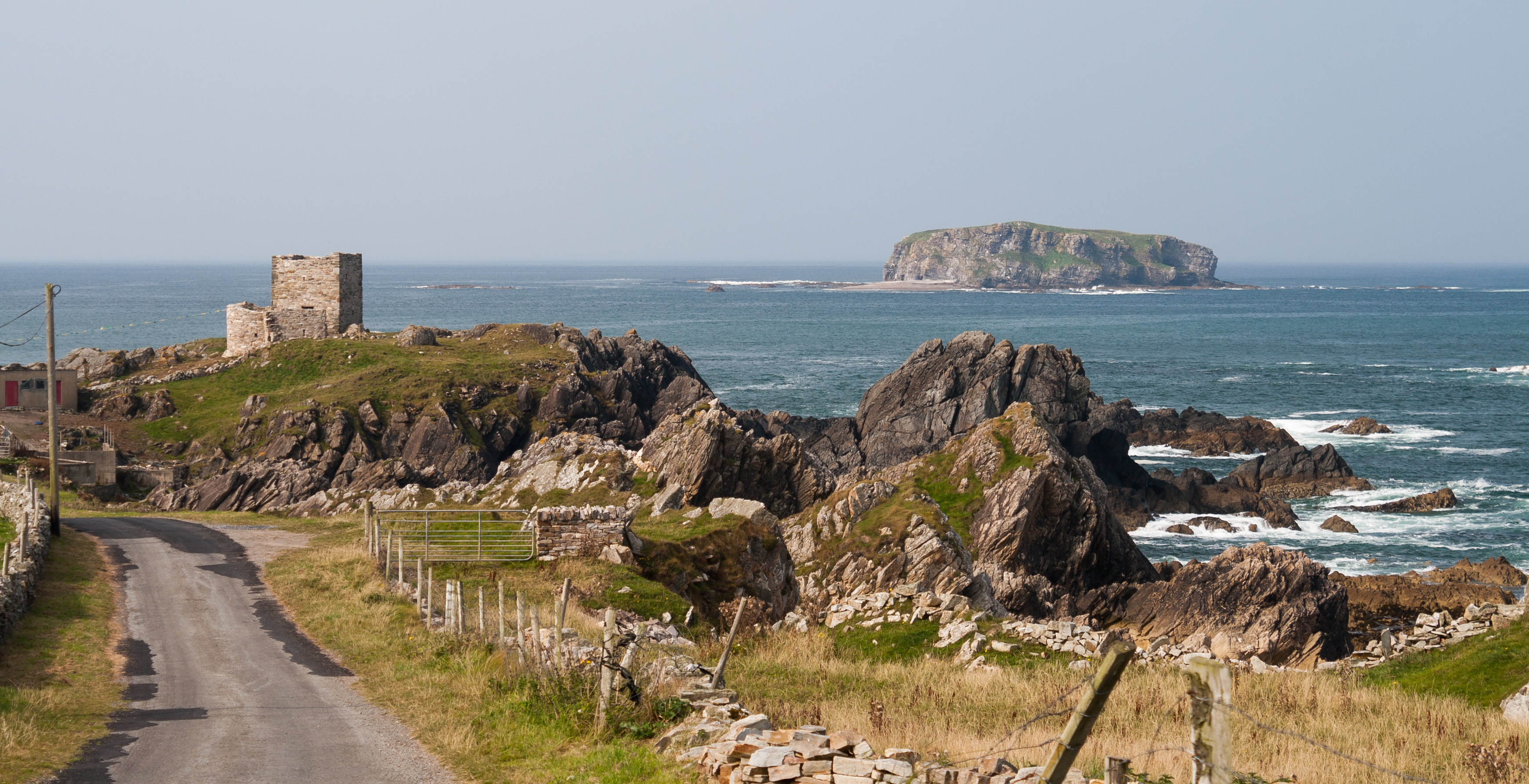 View of Carrickabraghy Castle and Glashedy Island, looking west.